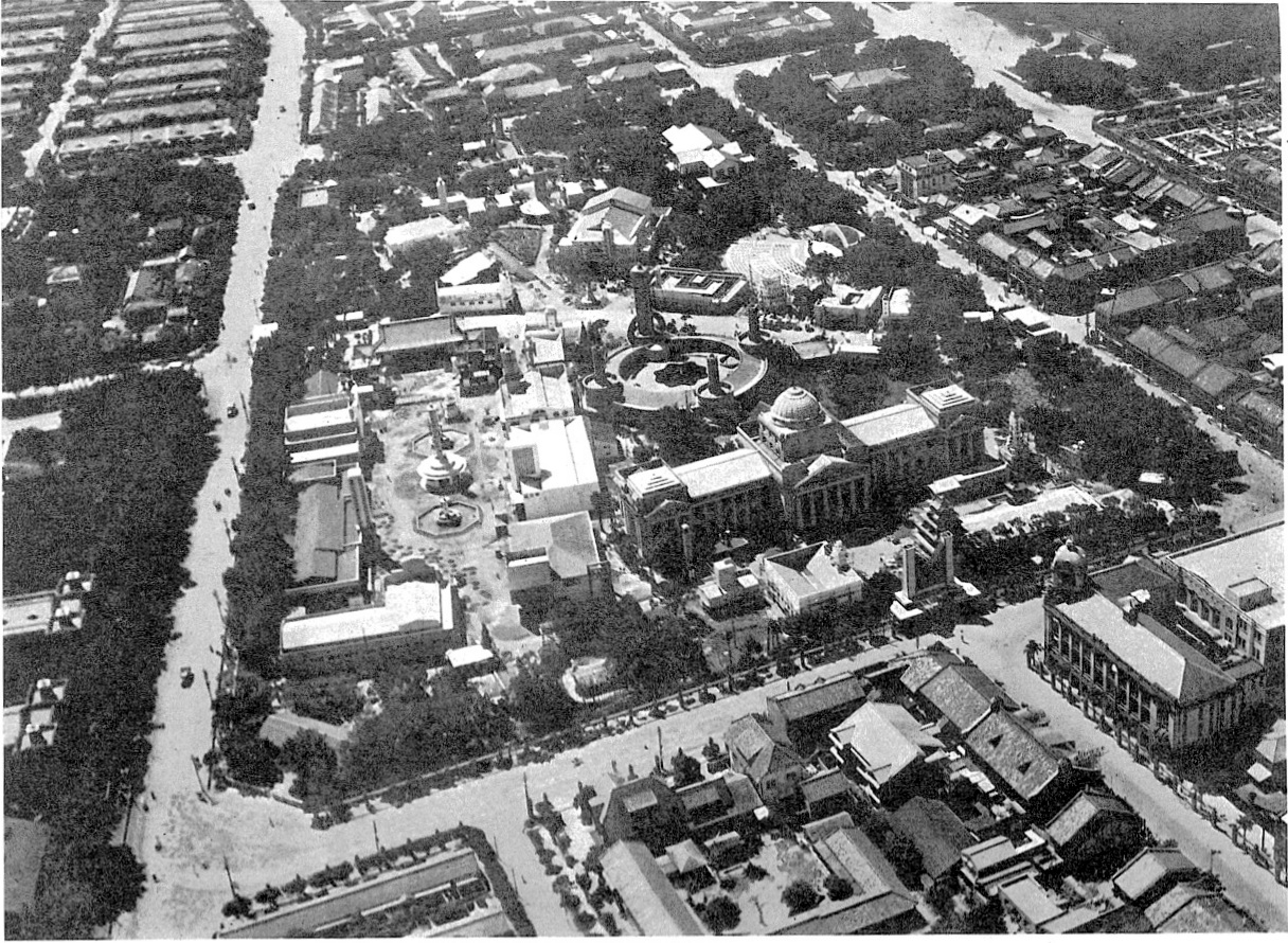 Taiwan Exposition, area 2, Taihoku, 1935